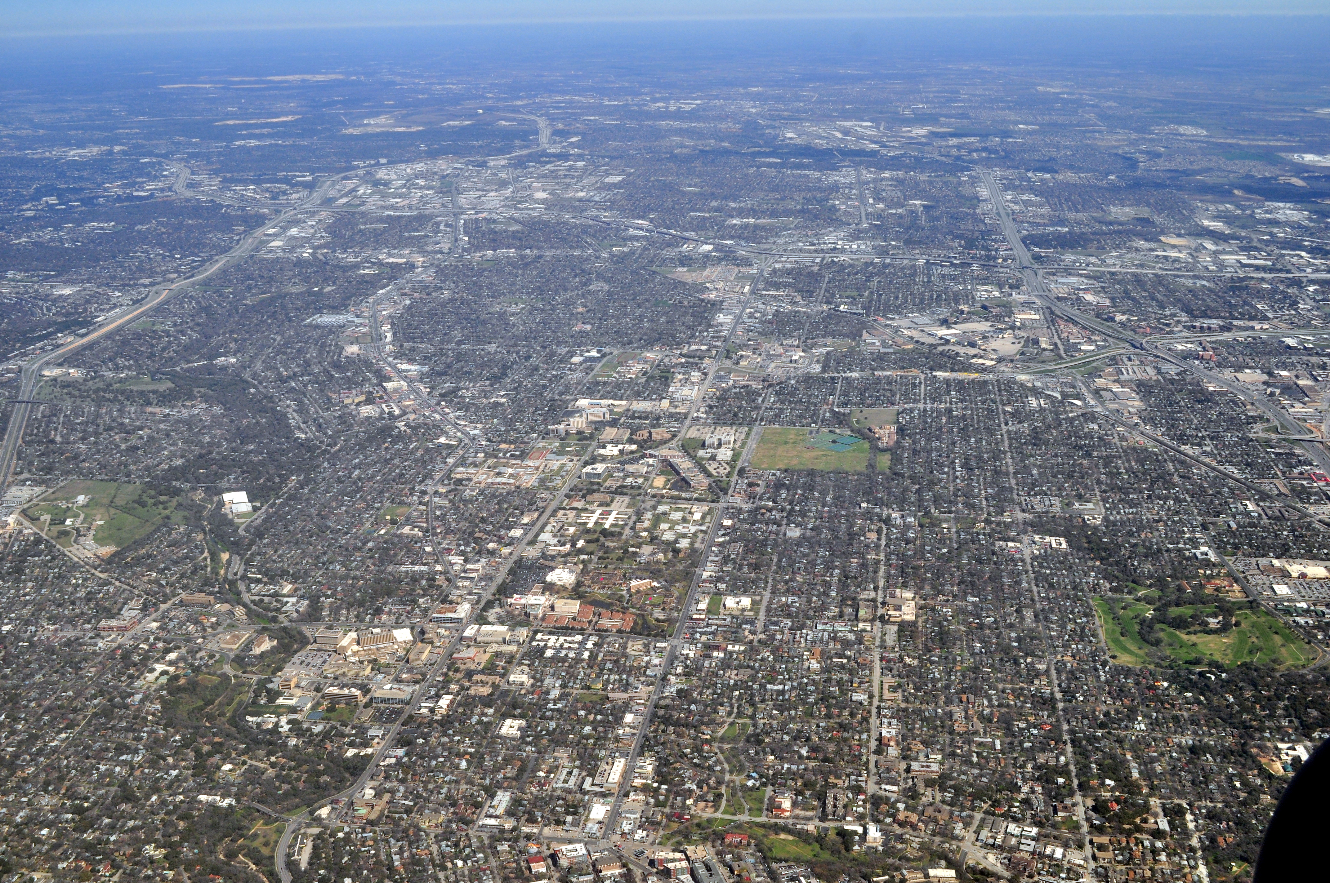 Aerial view of north central Austin, Texas. Looking north. Center is at Object location30° 19′ 10.17″ N, 97° 43′ 50.87″ W